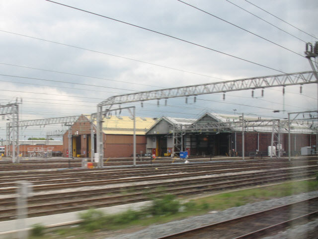 Longsight railway depot There has been a depot at Longsight since the Birmingham and Manchester Railway in 1842. The present buildings are operated by West Coast Traincare and look after Virgin's fleet of Pendolino and Voyager trains as well as local electric multiple units. It is difficult to get a photo of the buildings other than from a passing train.